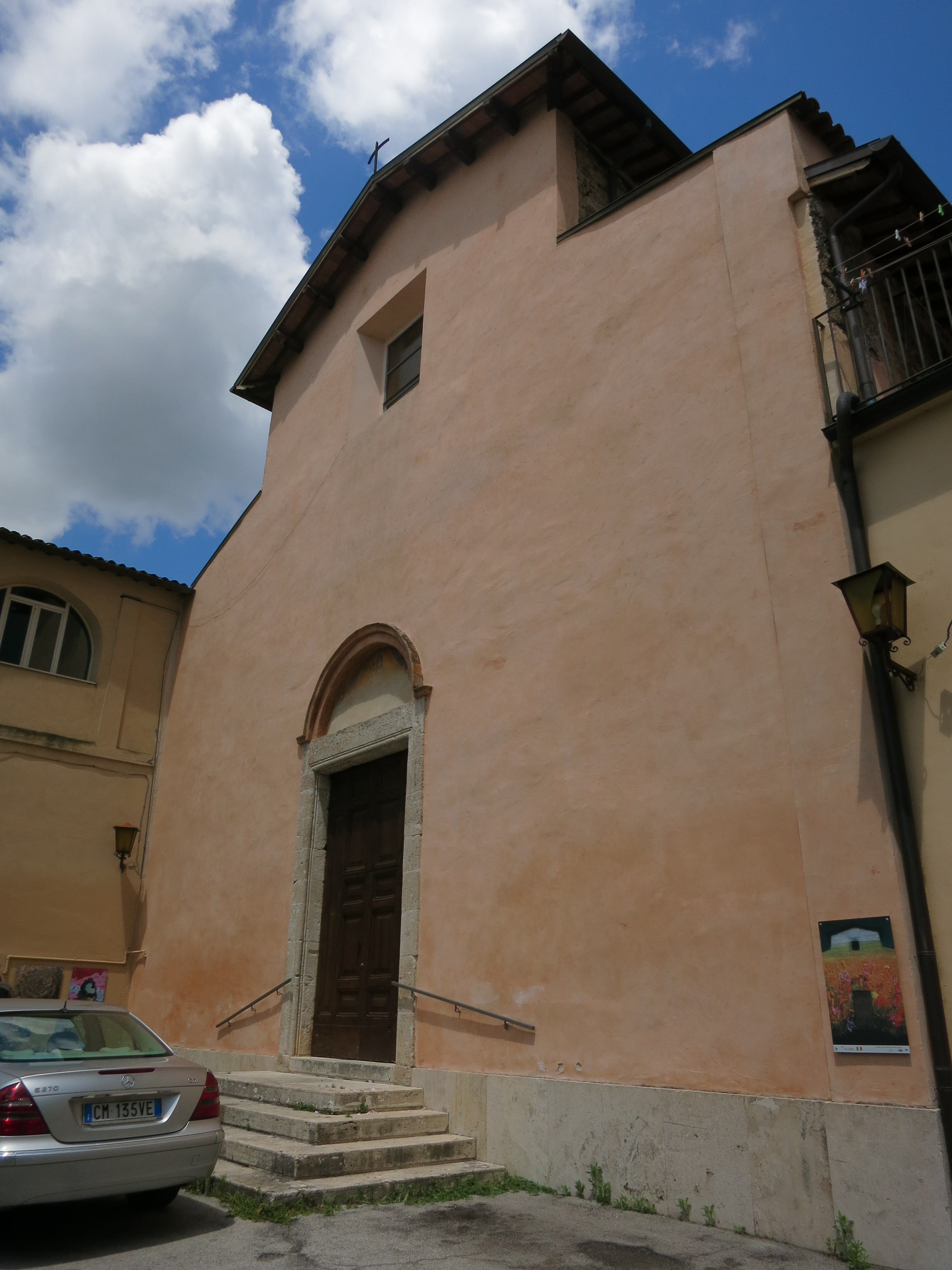 Saint Eusanio church - Rieti, Lazio, Italy